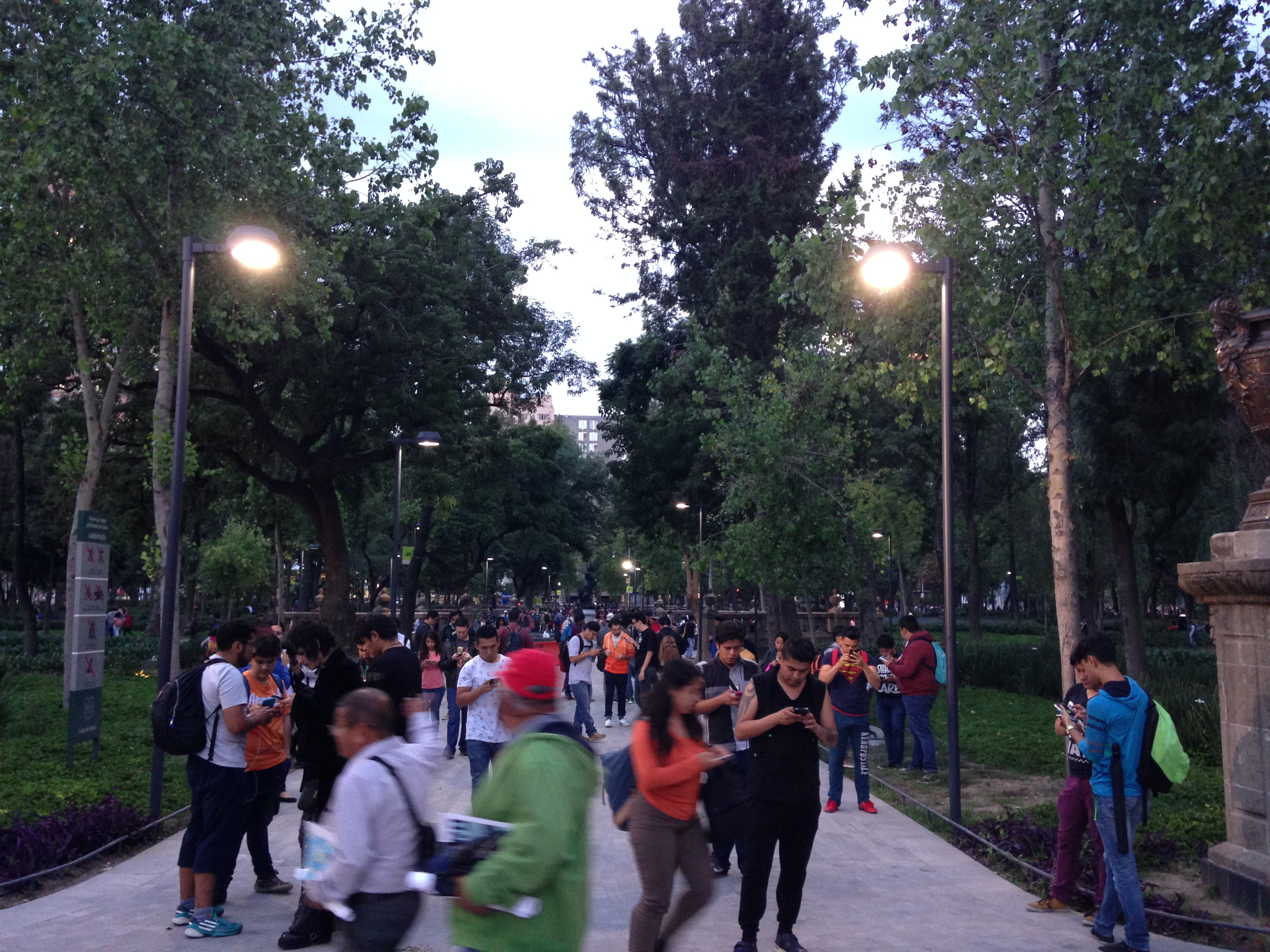 PokemonGO players at a pokestop. Alameda Central, Historical Downtown of Mexico City.